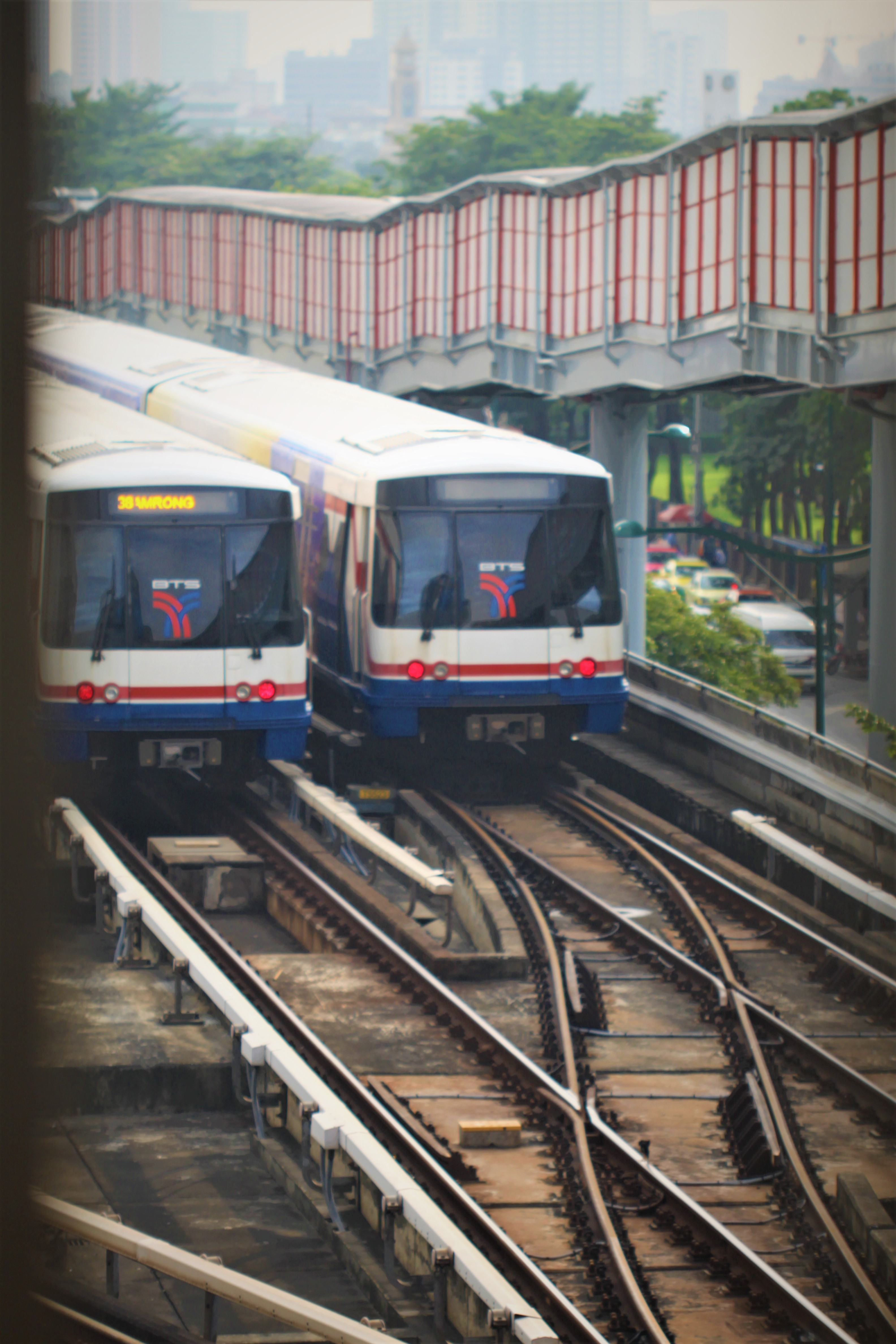 BTS SkyTrain is the first electric railway system to be operated in Thailand.